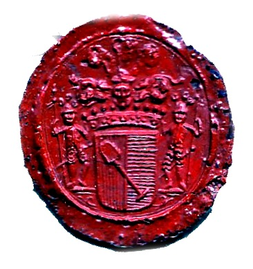 Sigilium of Johann Joseph Wenzel Anton Franz Karl Graf Radetzky von Radetz, Austrien general